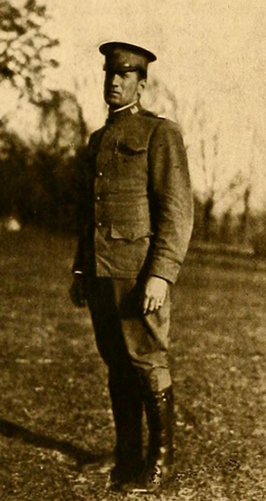 Alpha Brummage, c. 1912